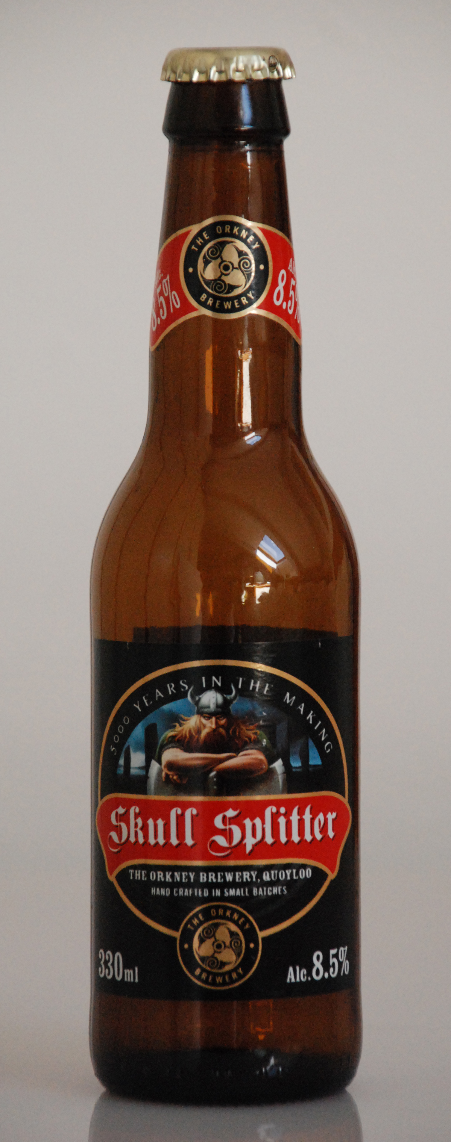 Empty 33cl bottle of Skull Splitter beer.